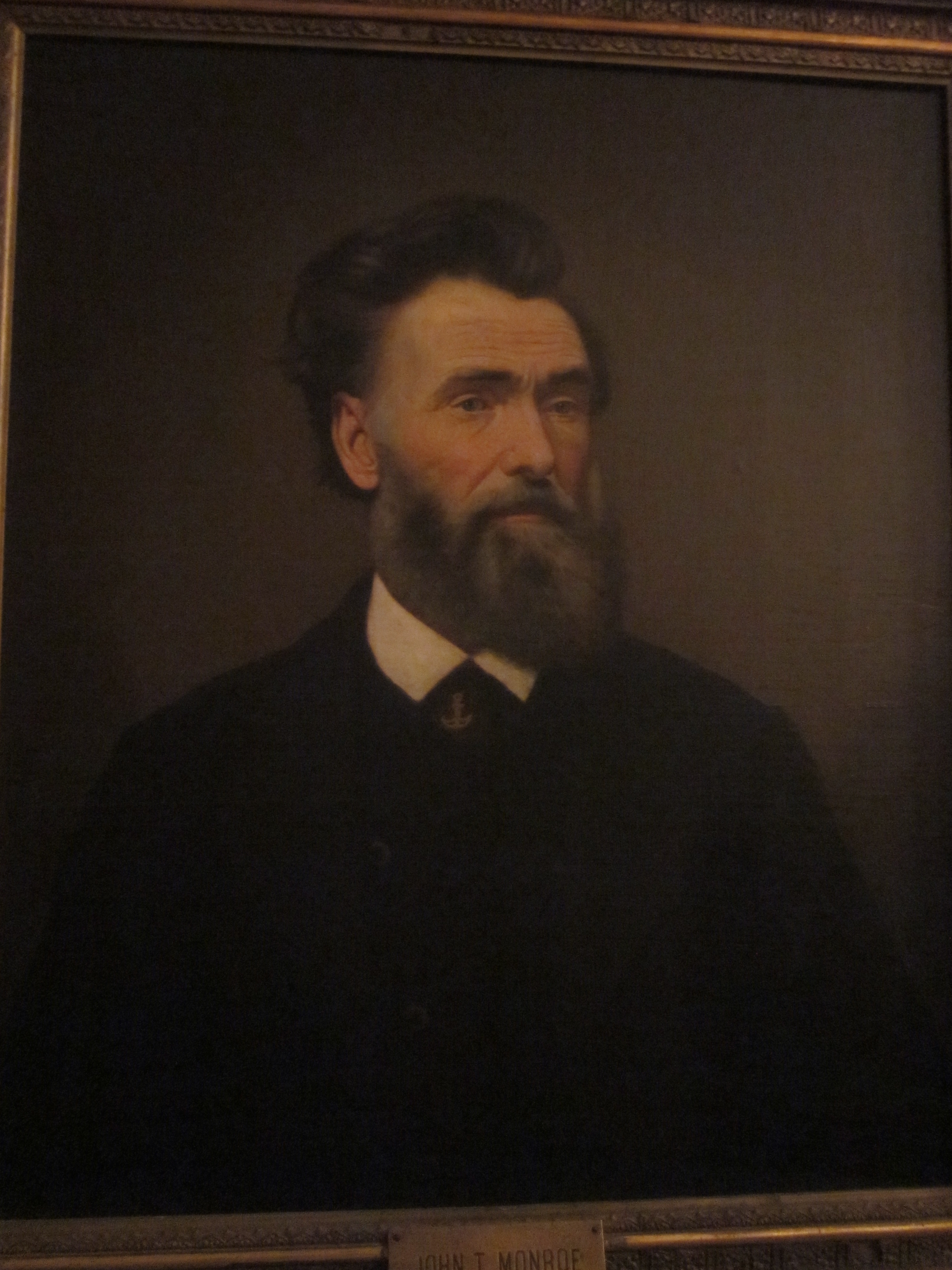 Gallier Hall (Old City Hall), interior New Orleans, Louisiana. Old painting of John T. Monroe, mayor of New Orleans in the late 1860s